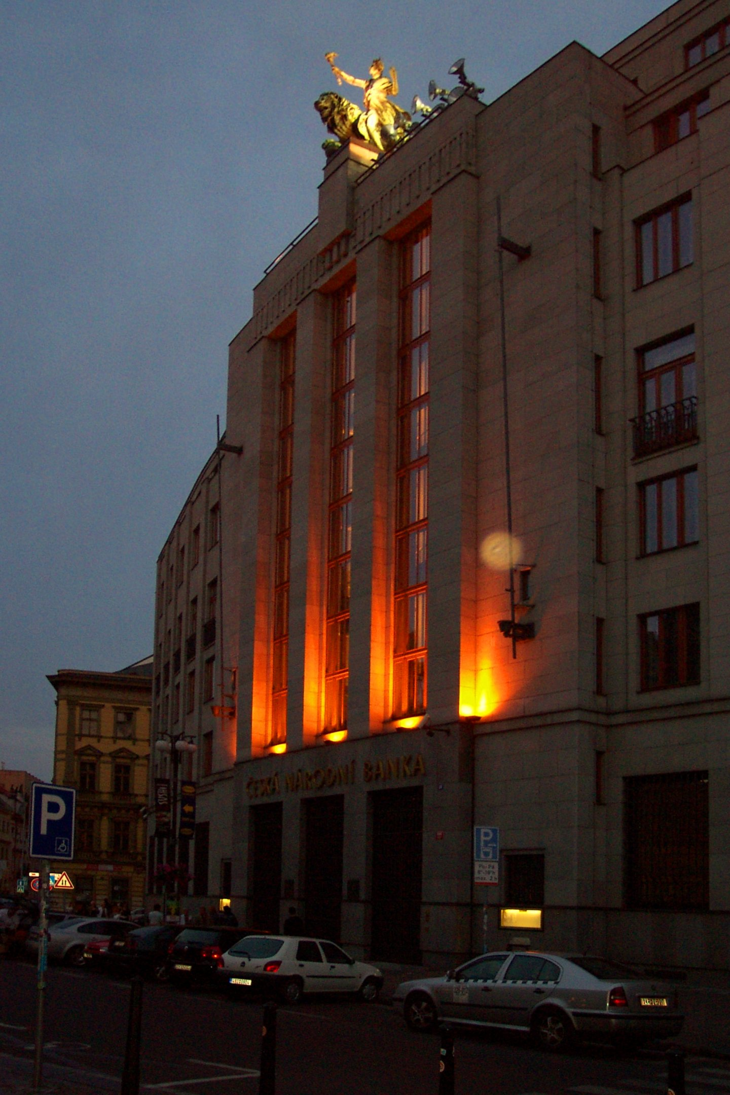 The building of Czech national bank (Česká národní banka) after sunset